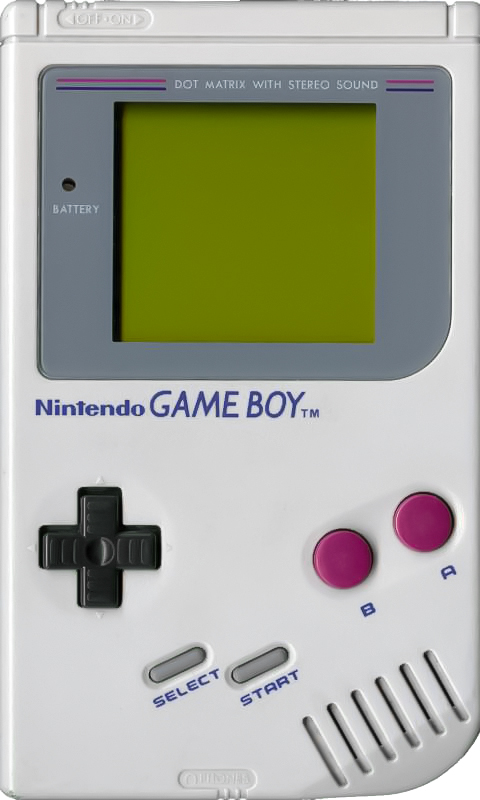 The original Game Boy.